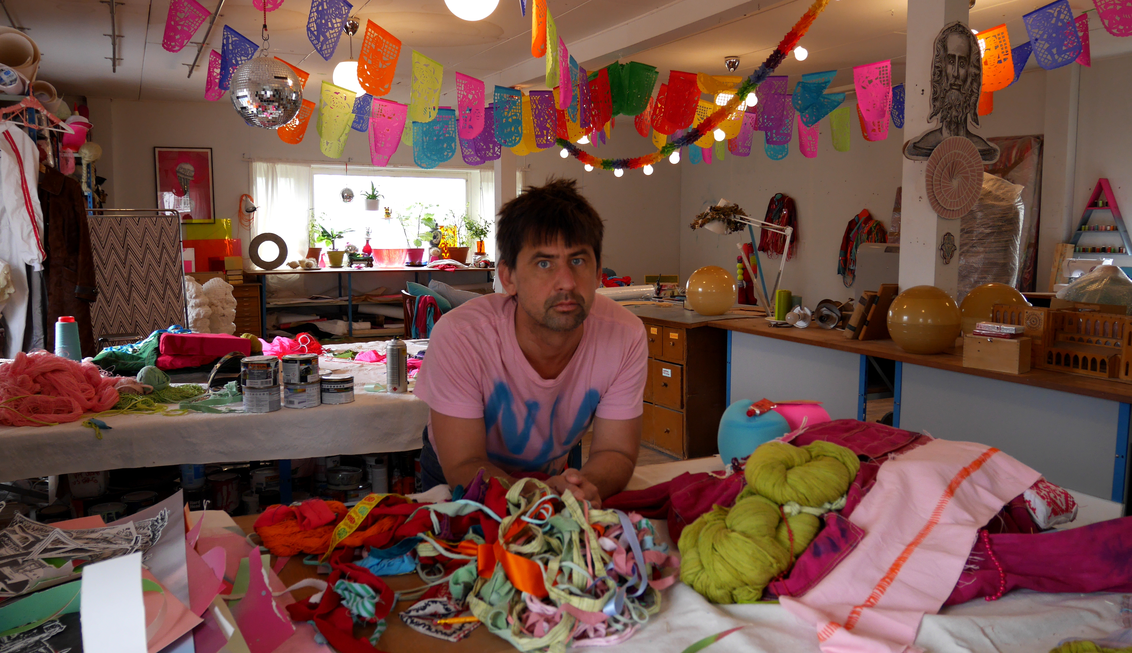 Portrait of the artist Jonas Liveröd in his studio in Ågårdskvarn, Sweden.